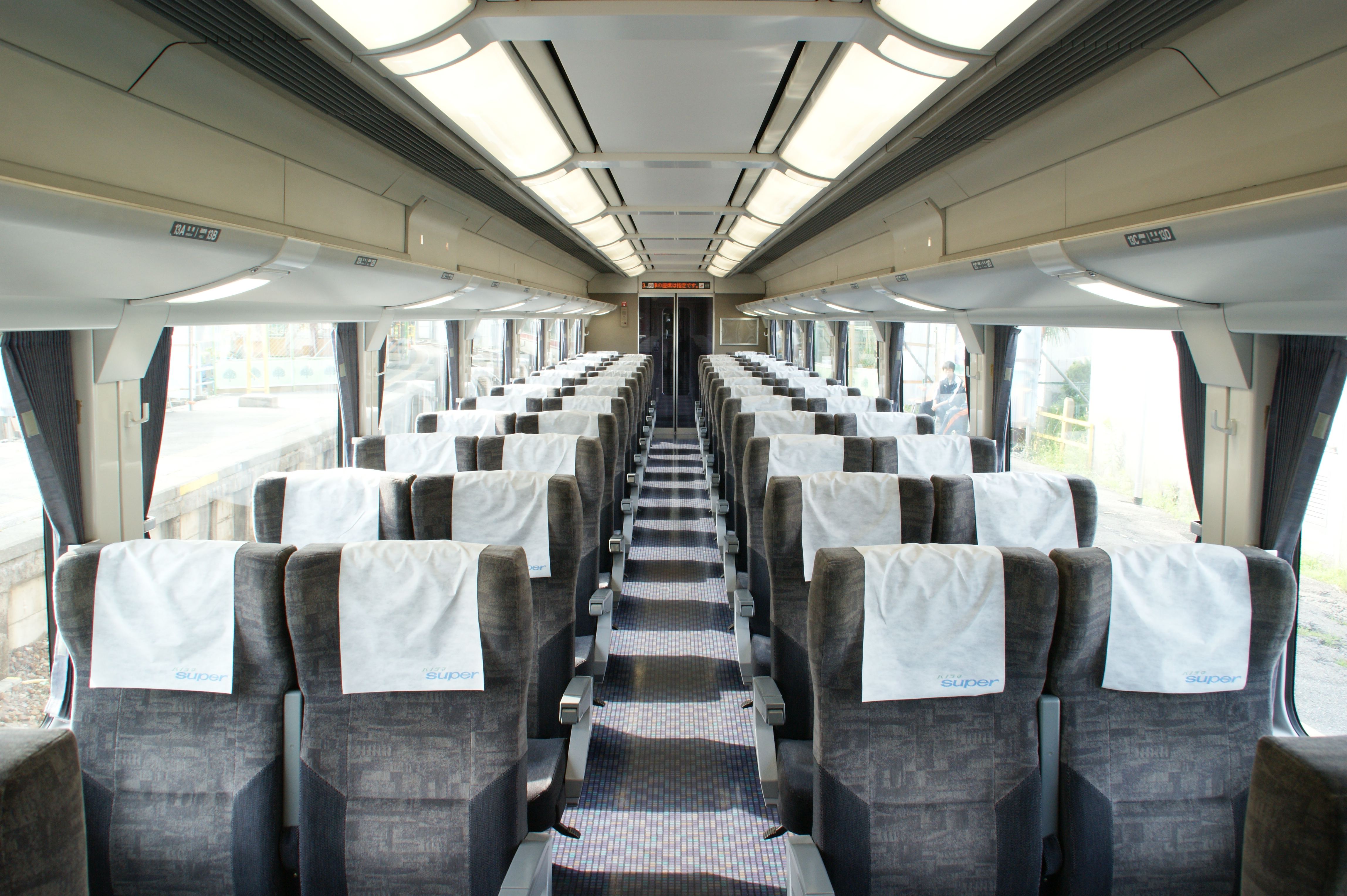 Nagoya Railroad, Cabin of Series 1600. Taken at Kira Yoshida Station(Kira Town, Aichi Prefecture, Japan)